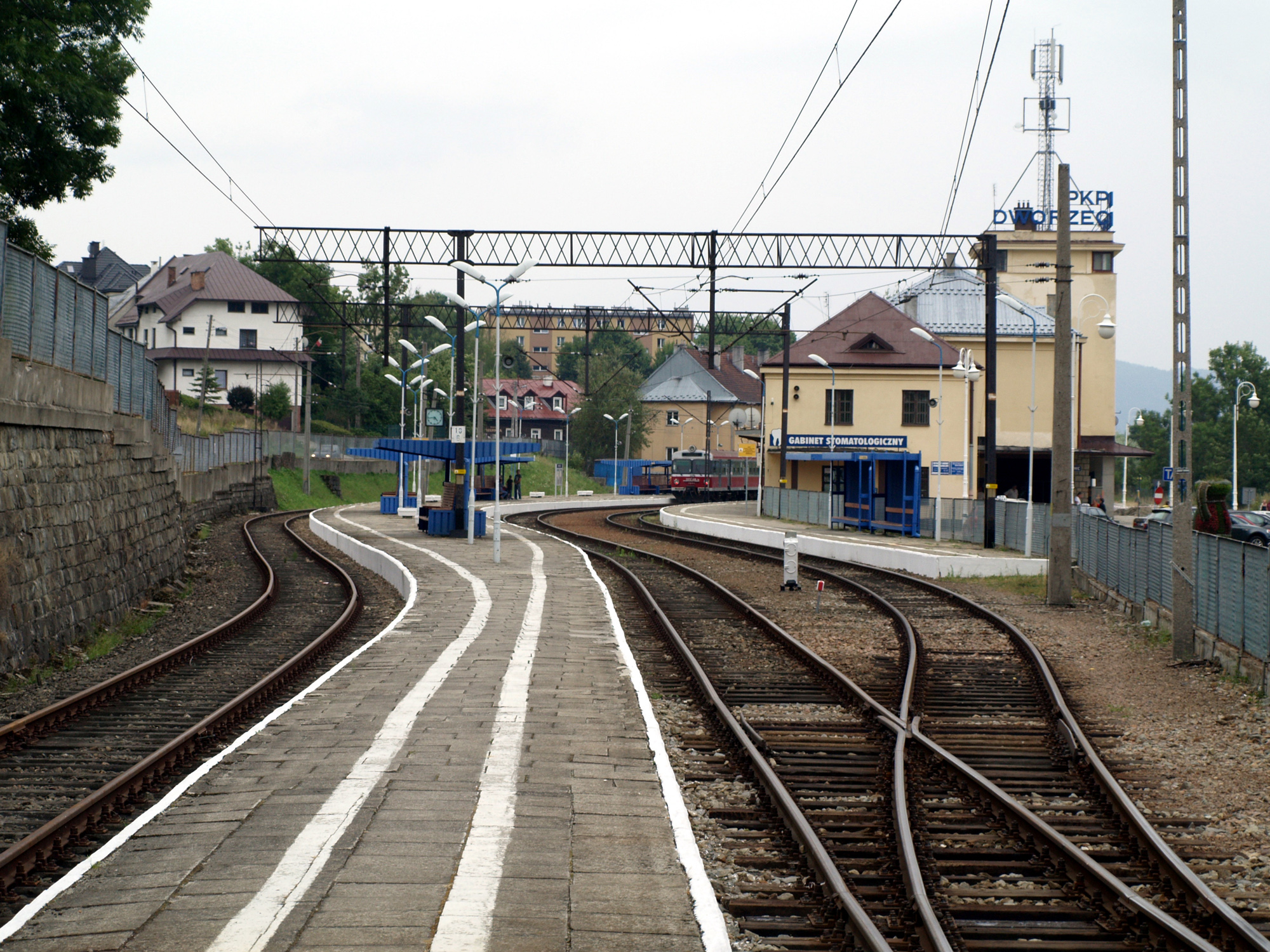 Train station in Krynica-Zdrój.